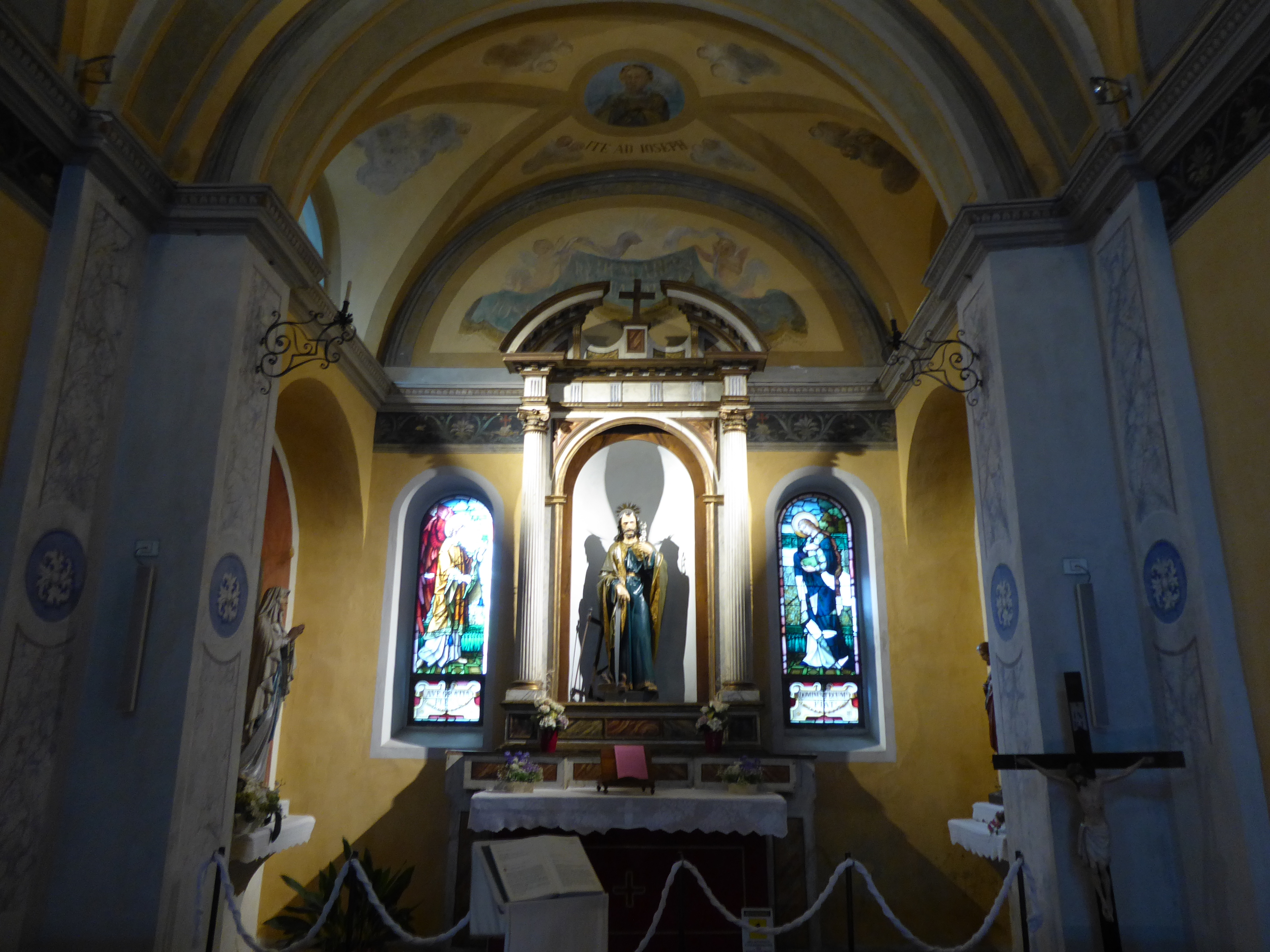 Arco (Trentino, Italy) - Saint Joseph church - Interior